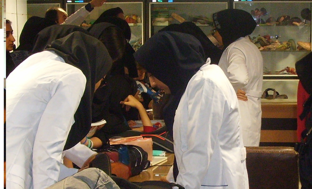 saloon of moulage, department of biology and anatomical sciences